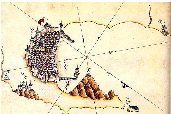 Ancona in Italy on the Kitab-ı Bahriye (Book of Navigation) of Piri Reis